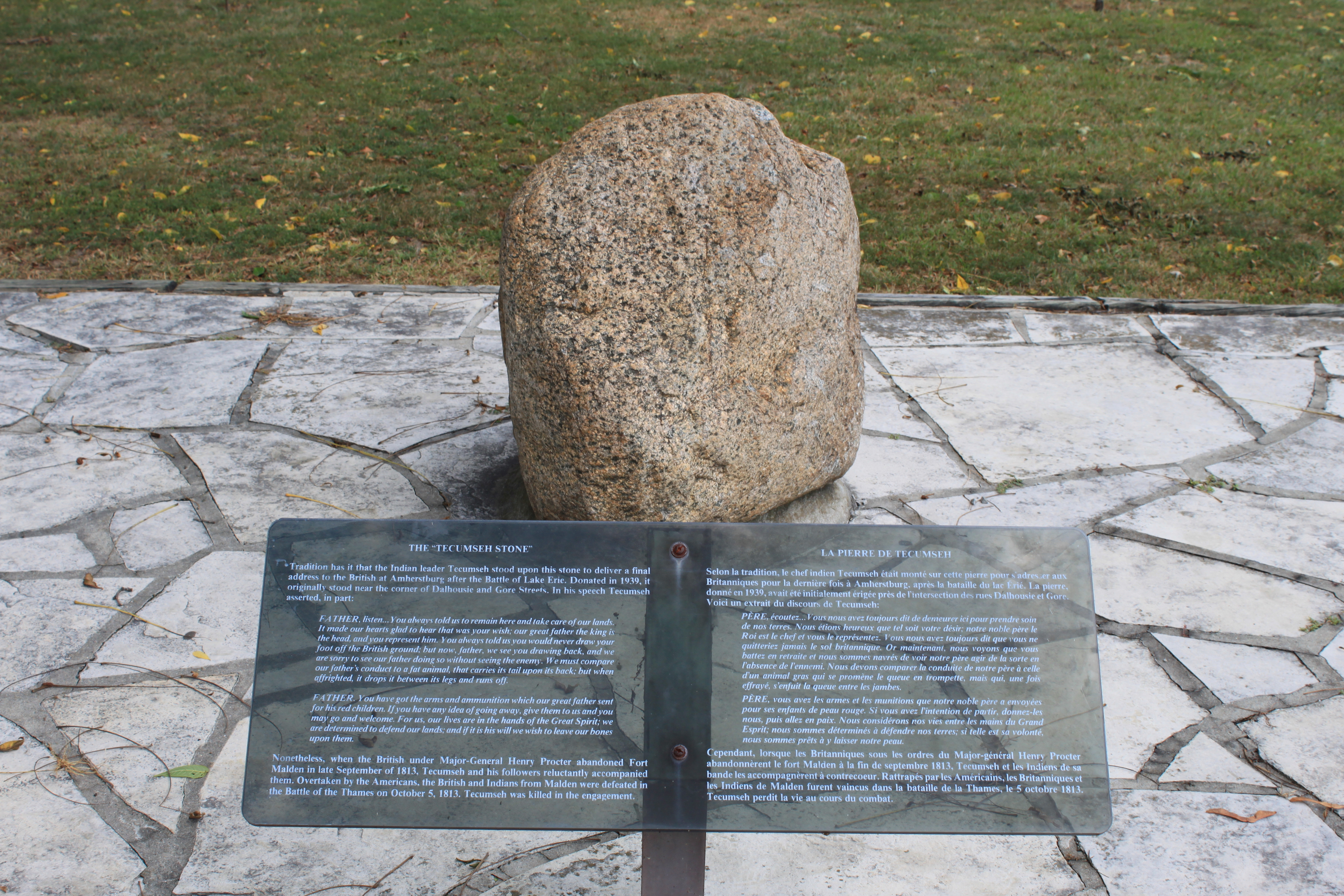 "Tecumseh Stone", Fort Malden National Historic Site, Ontario. Tecumseh reportedly stood on this stone to address British troops at Amhertsburg after the Battle of Lake Erie.